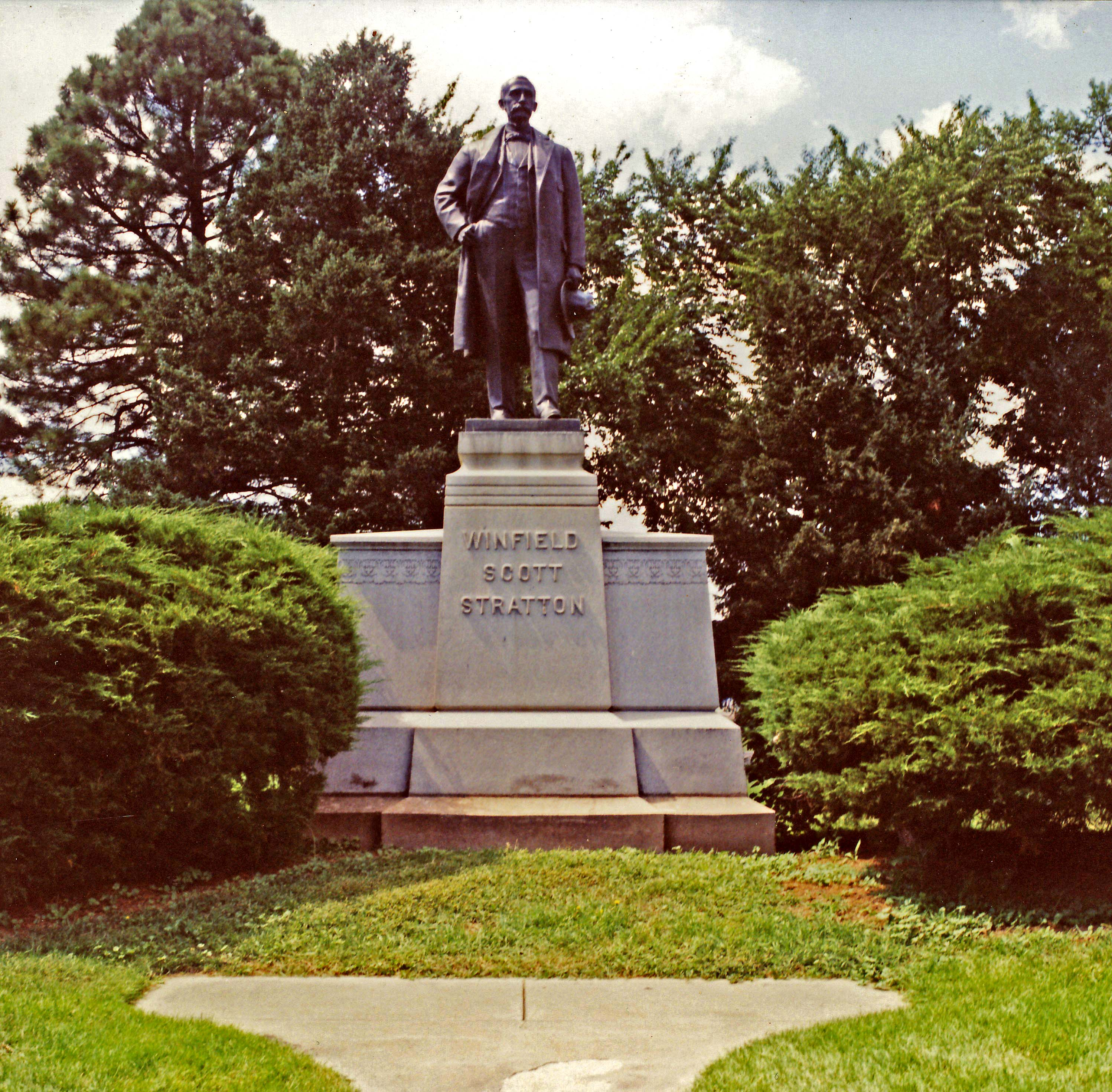 Stratton memorial by Nellie Walker located in Colorado Springs, USA. c. 1905